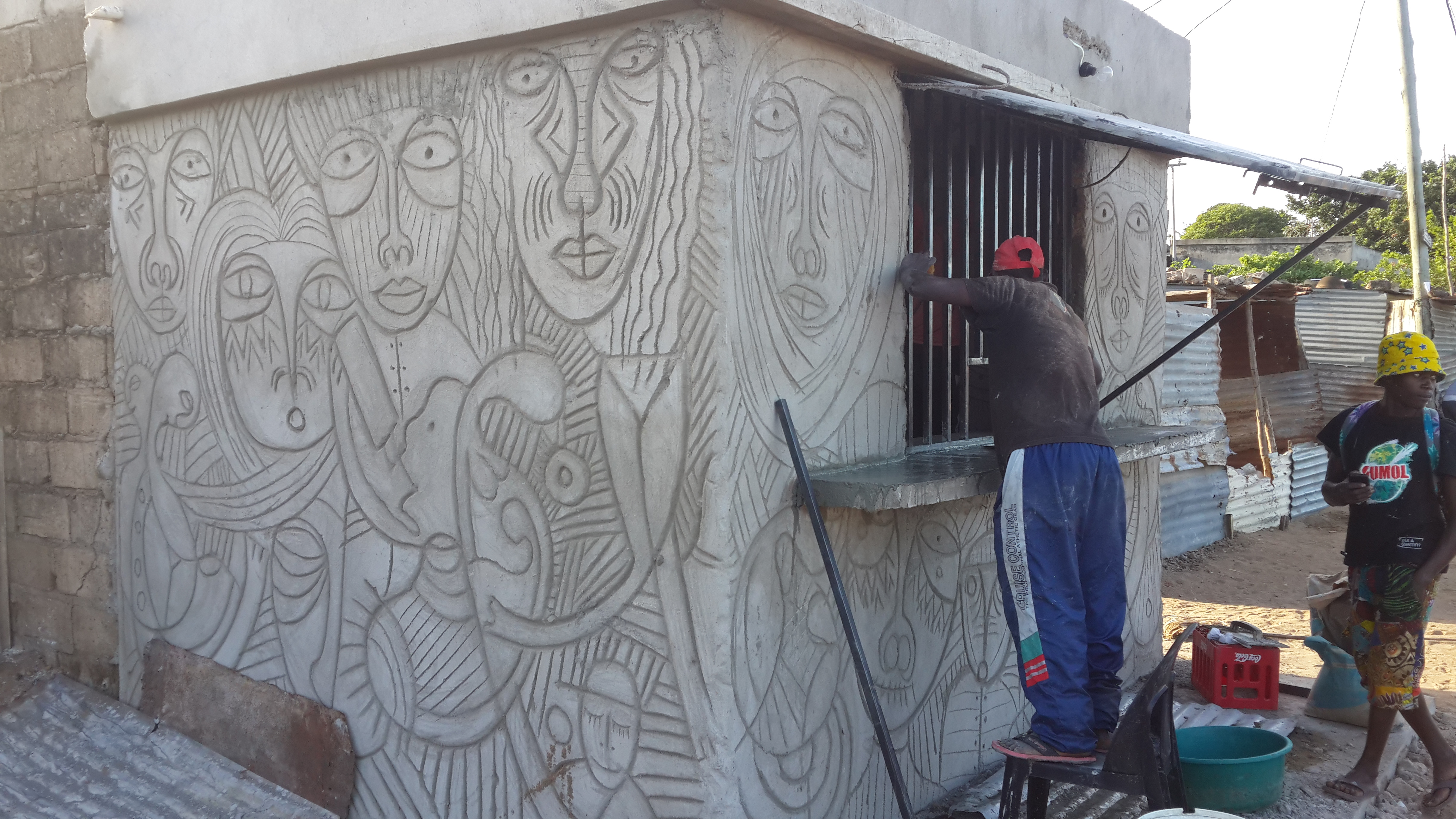 Wall art at a barraca in Maputo This is an image of "African people at work" from Mozambique